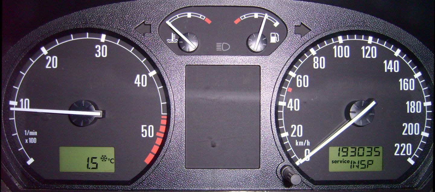 Speedometer showing "service inspection"